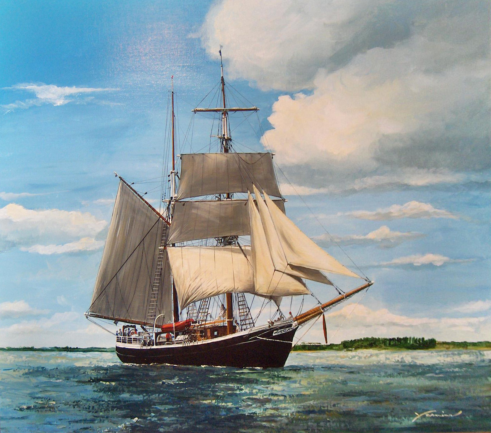 the brigantine Soren Larsen